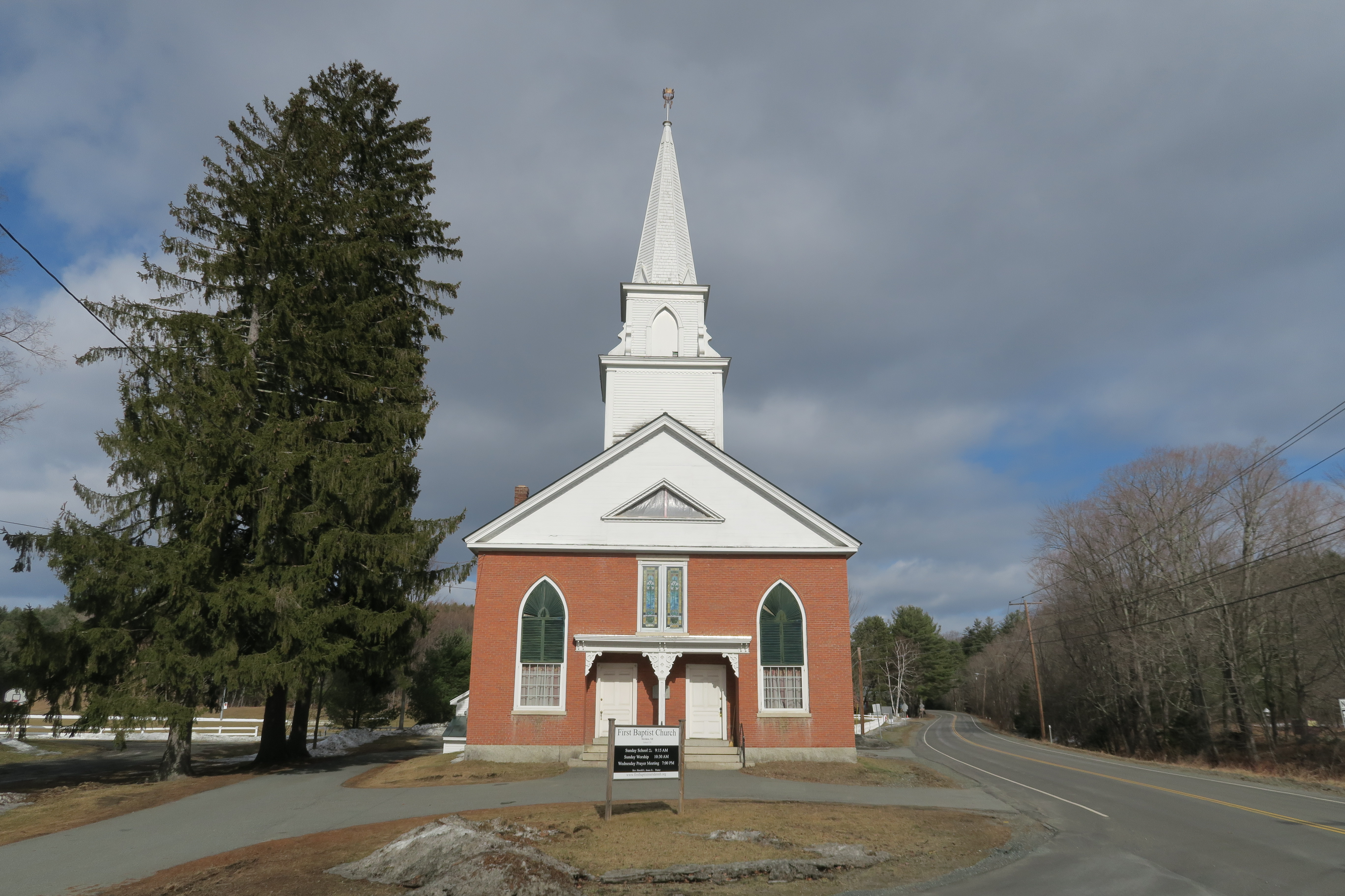 First Baptist Church, Meriden New Hampshire